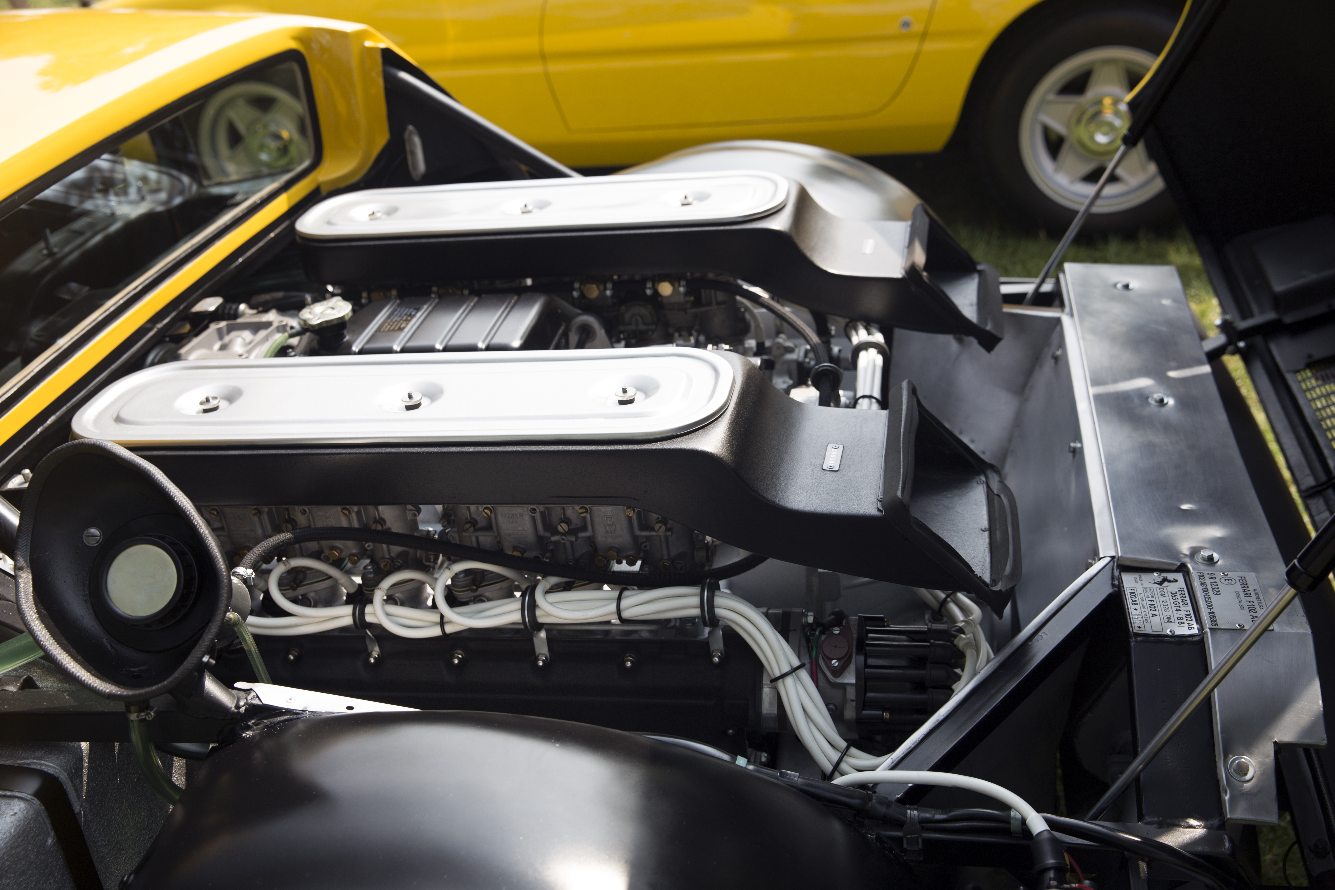 The amazing 4.4-liter flat-twelve of a 1974 Ferrari 365 GT/4 Berlinetta Boxer at the 2019 Greenwich Concours d'Elegance.